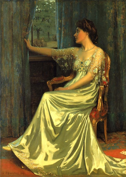 Dawn by Edmund Hodgson Smart, now at the Smithsonian Institute